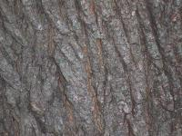 Bark of the Norway Maple Photograph 2003-09-12 Karl DeBisschop Quincy, MA (USA)